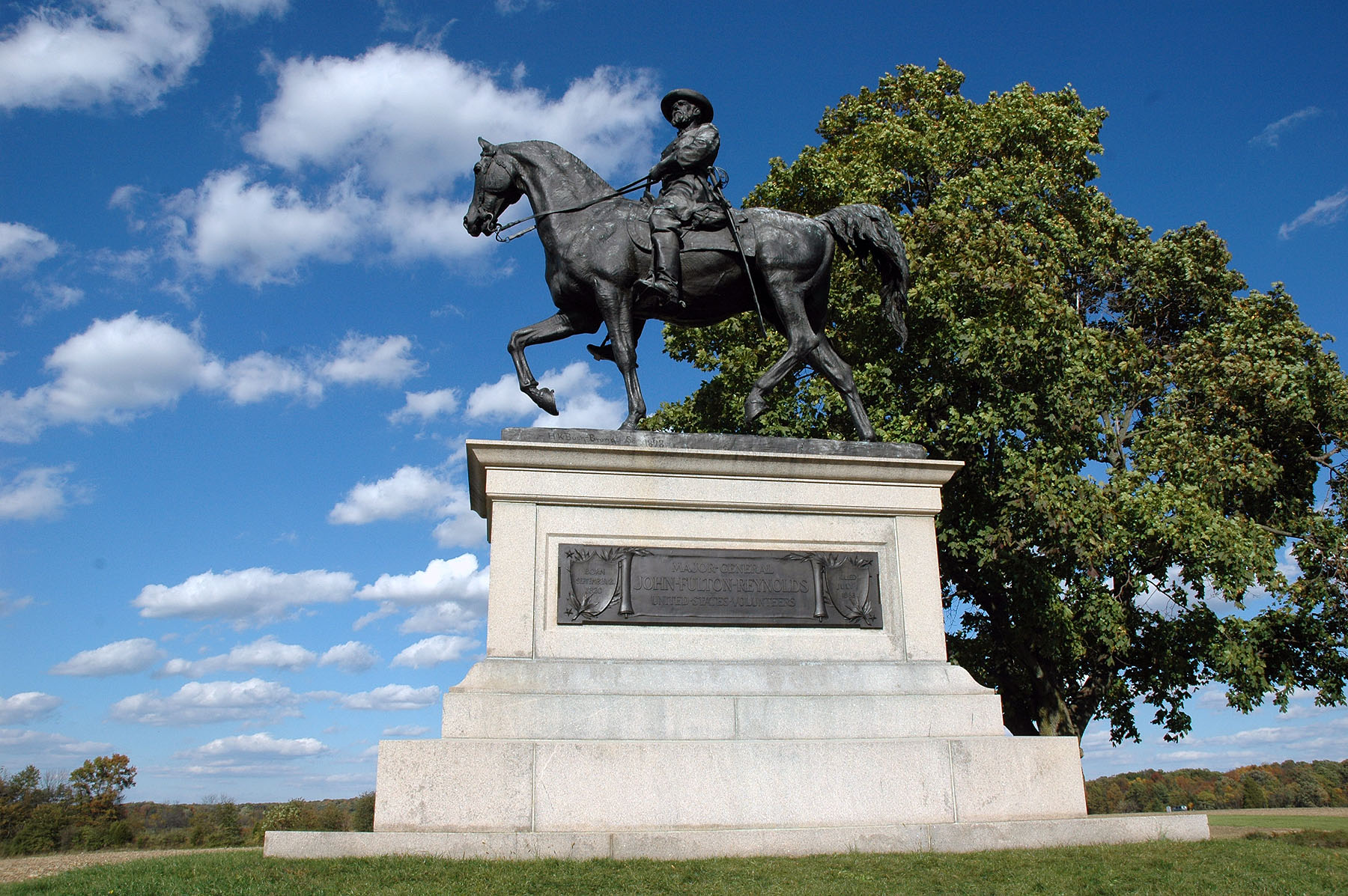 John F. Reynolds monument at Gettysburg, taken by Don Wiles, donated to public domain.